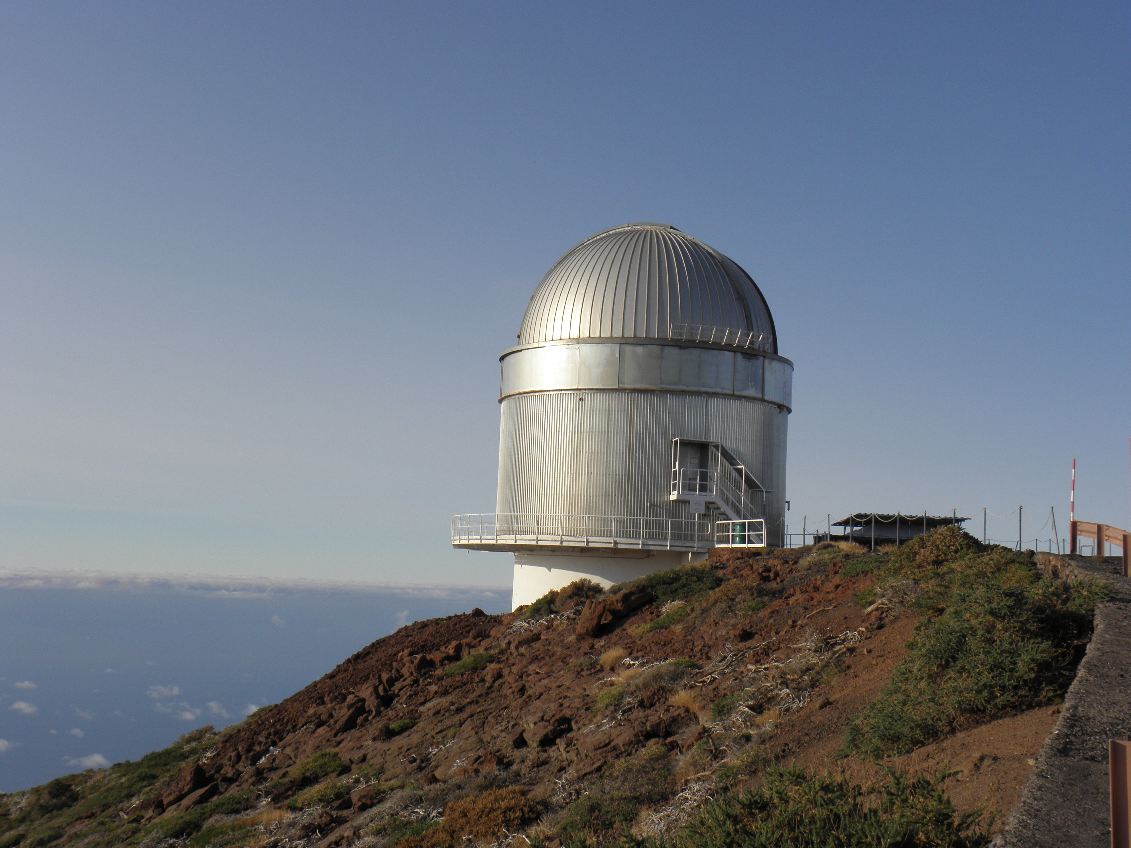 Nordic Optical Telescope near the time of sunset.